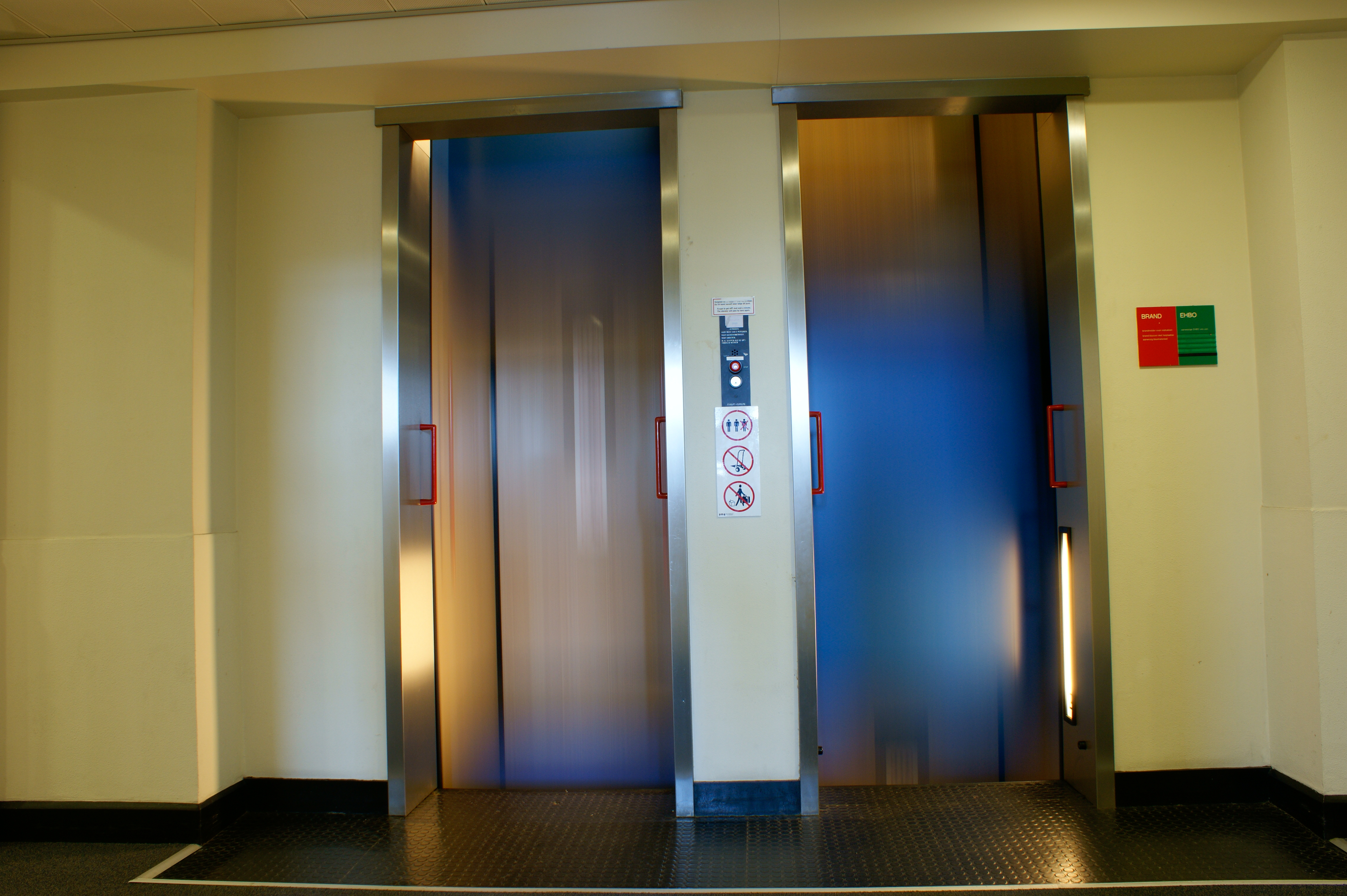 Picture of the paternoster elevator in The Hague when it still was operational